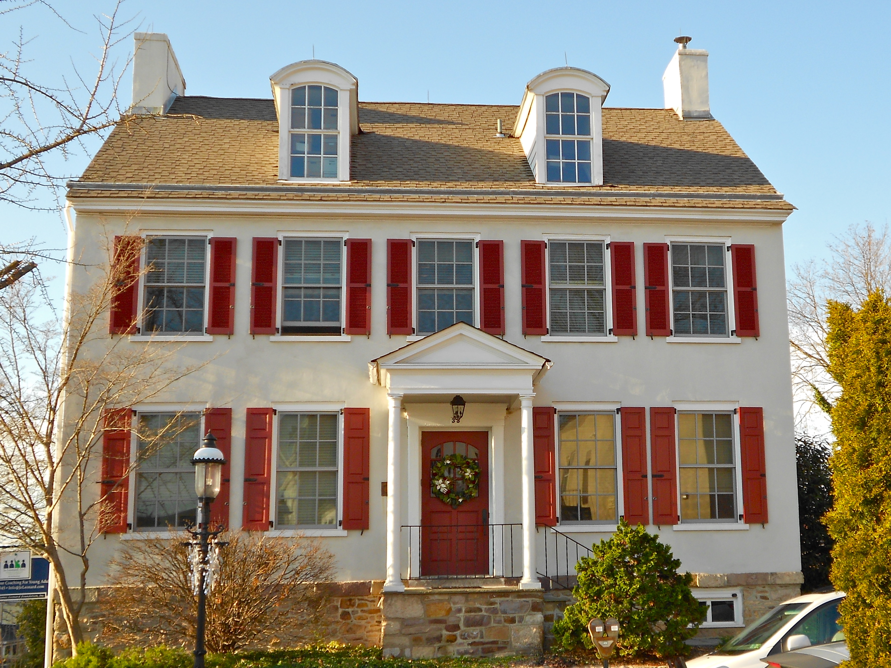 Pugh Dungan House on the NRHP since March 20, 1980. At 33 W. Court Street, Doylestown, Bucks County, Pennsylvania.